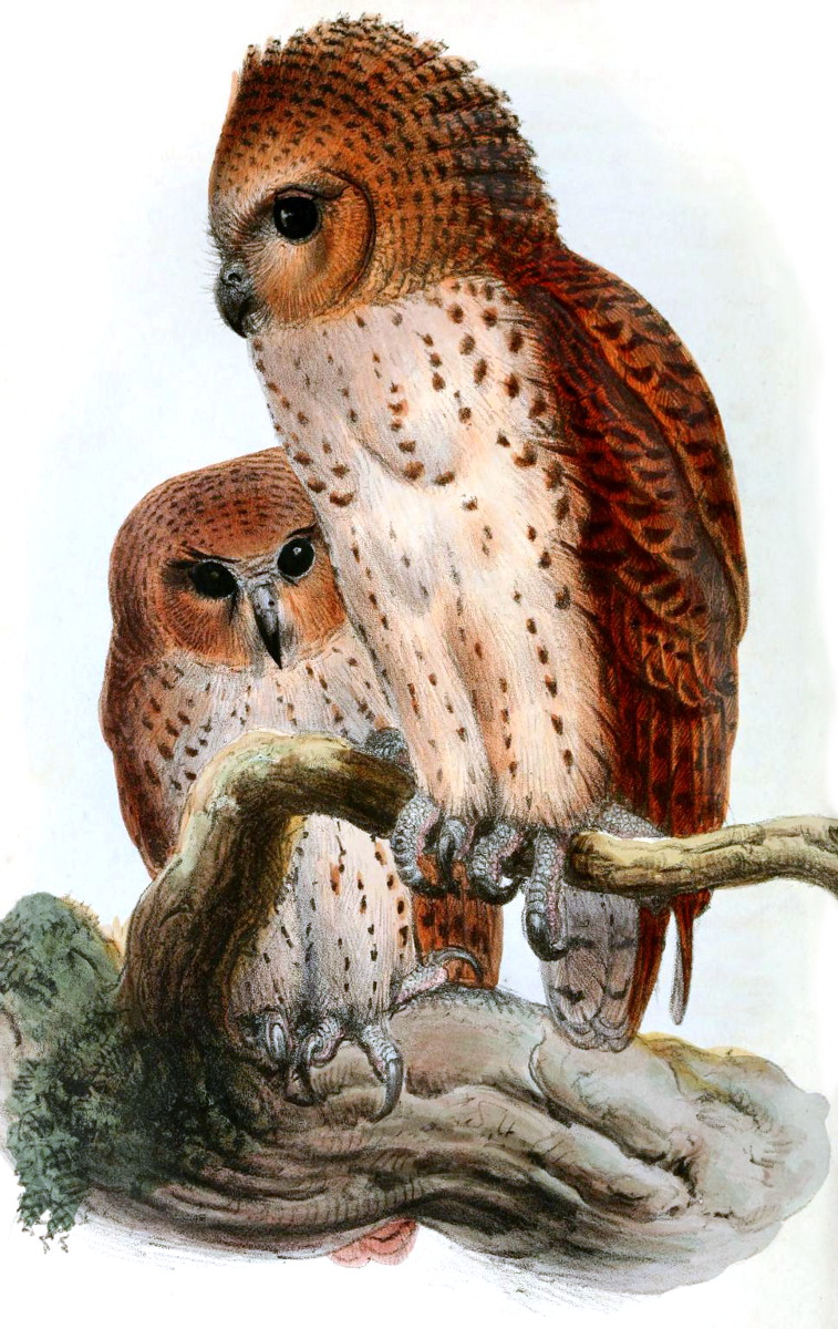 Pel's Fishing-owl, Scotopelia peli, lithograph